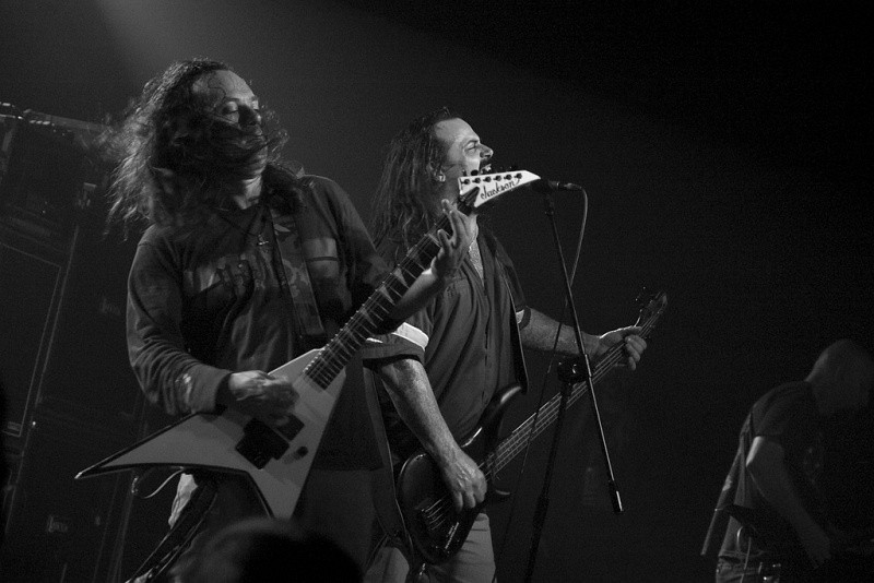 Winterfest 2009, Deicide, Warszawa, Progresja, 22.01.2009